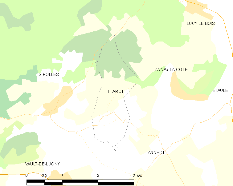 Map of French municipality Tharot